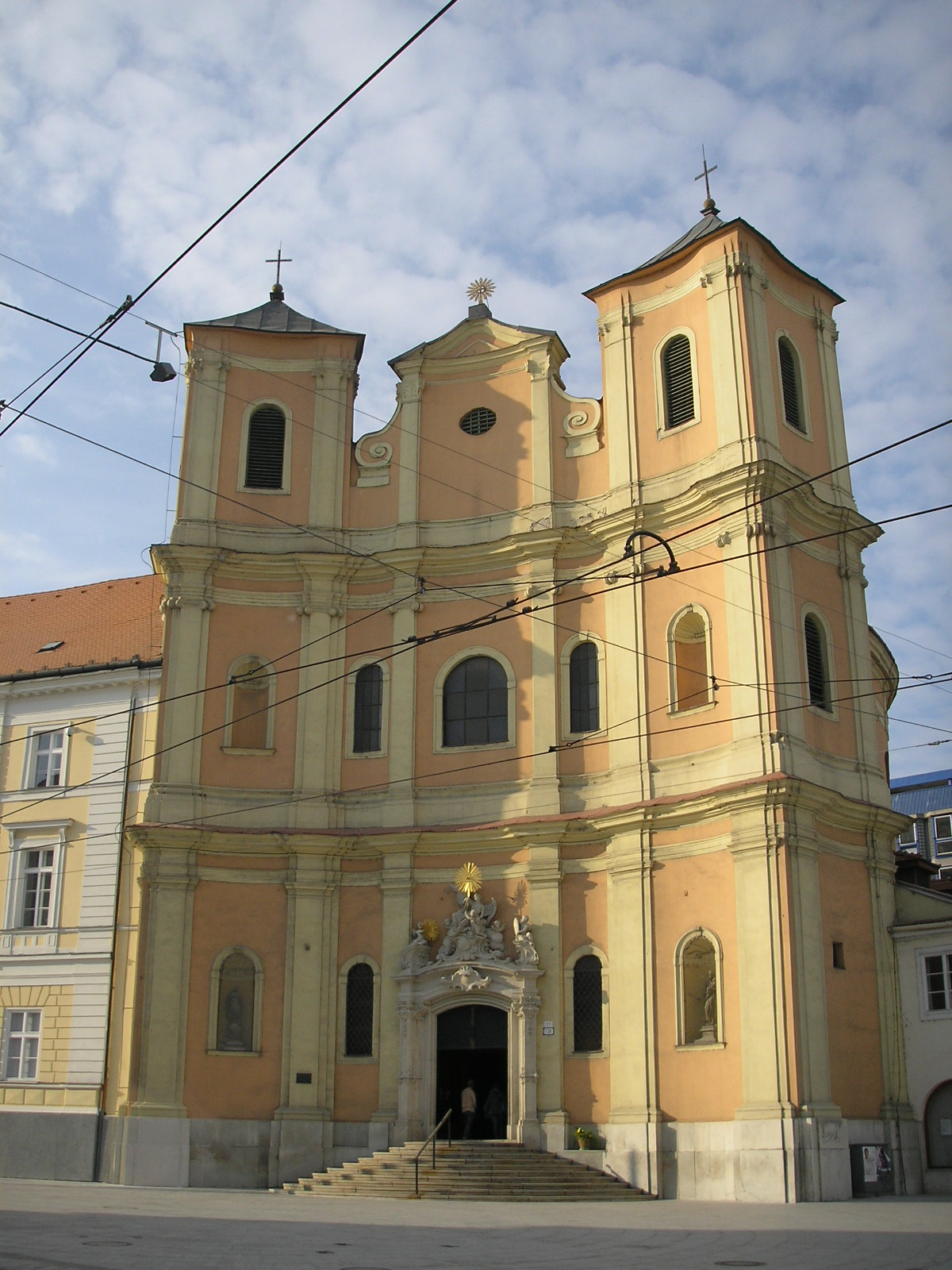 Image of a church and monastery in Bratislava, Slovakia. Cathedral of the Military Ordinariate of Slovakia